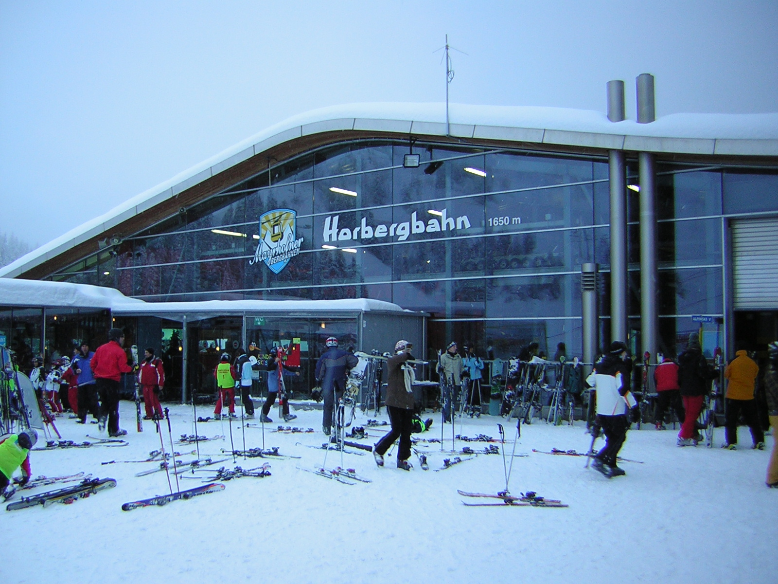 Horbergbahn in the Zillertal - upper station